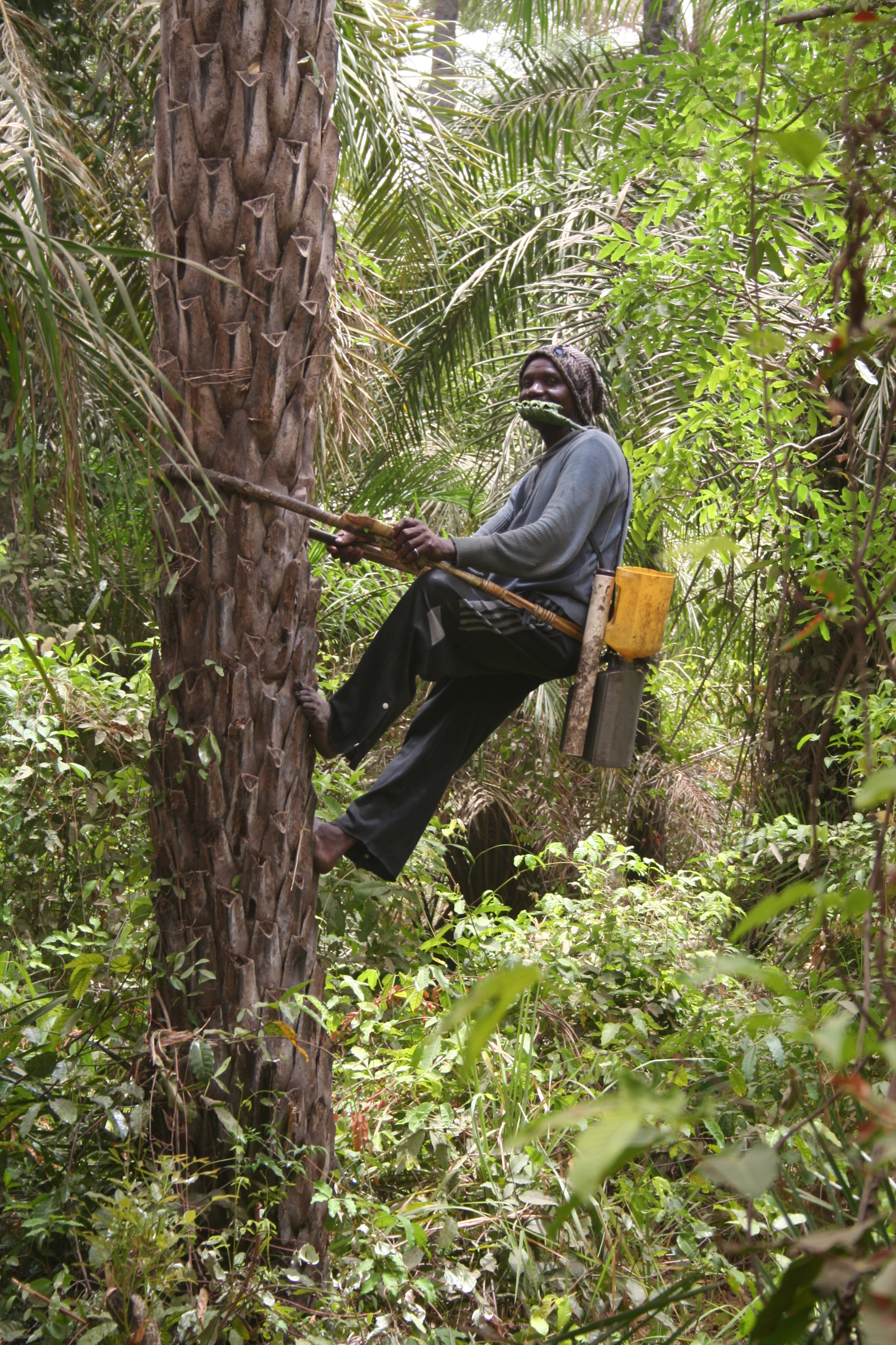 Collecting palm wine on oil palm, Elaeis guineensis, F.Cl. de Patako, Senegal